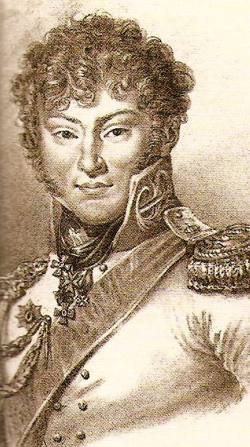 Russian general Aleksandr_Ivanovič_Černyšev (1786-1857)